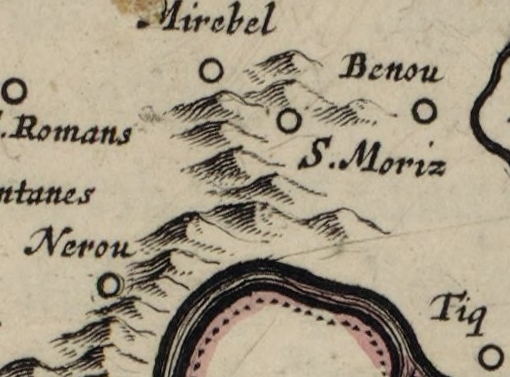 Map of miribel (Ain) region from a map of Bresse (XVIe century).